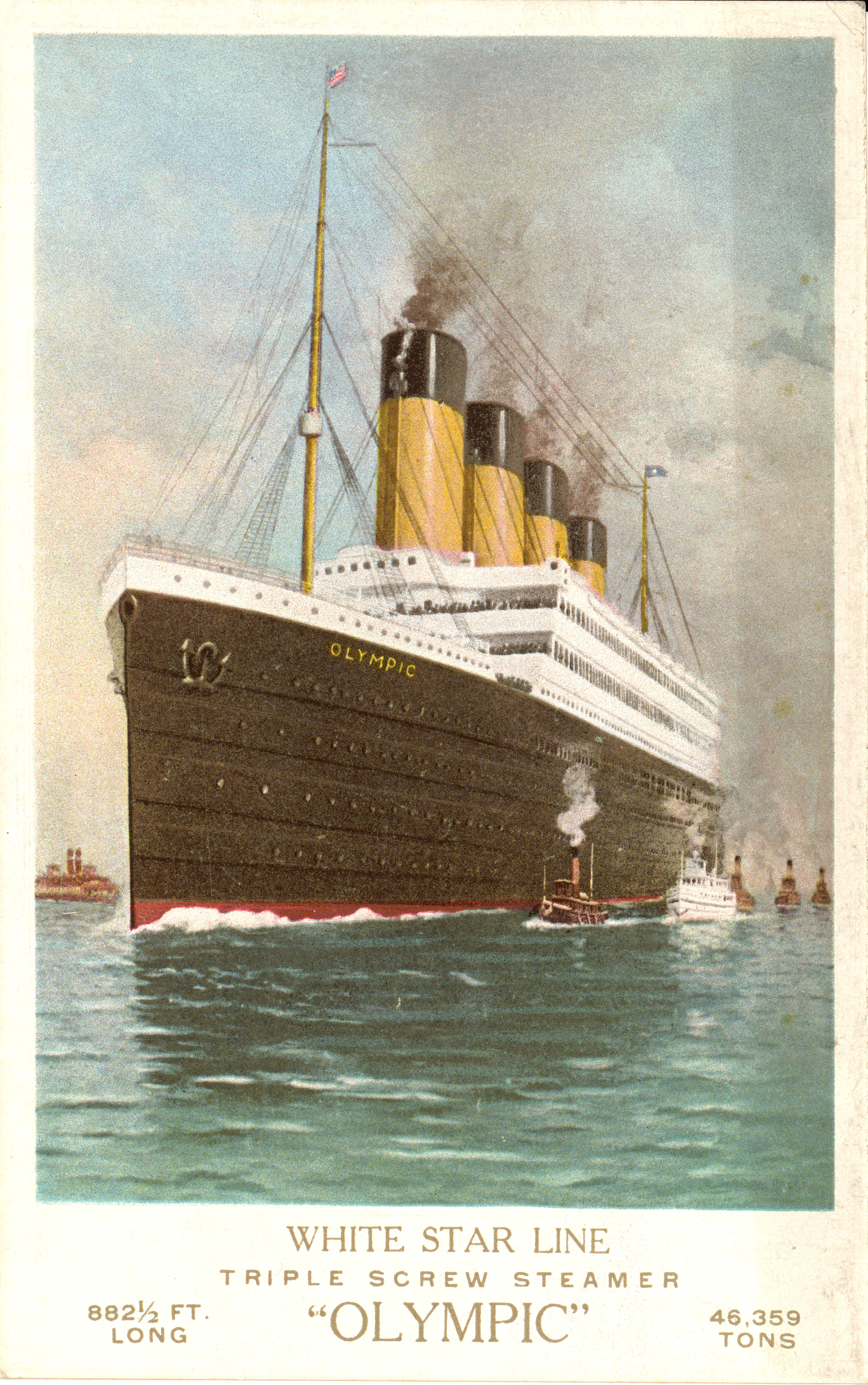 RMS Olympic was the lead ship of the Olympic class ocean liners built for the White Star Line, which also included Titanic and Britannic. Unlike her sisters, Olympic served a long and illustrious career (1911 to 1935), becoming known as "Old Reliable."